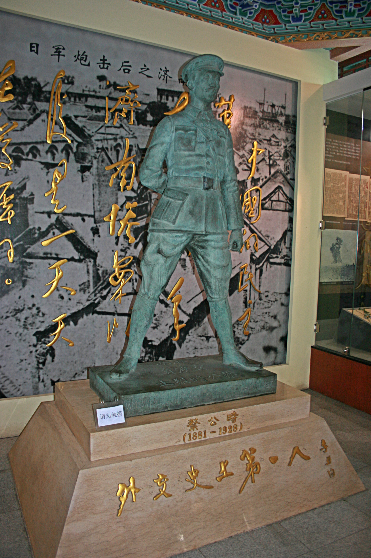 Statue of Cai Gongshi in the Memorial Gardens for the Jinan Incident (within the Baotu Spring Gardens), Jinan, Shandong Province, China.